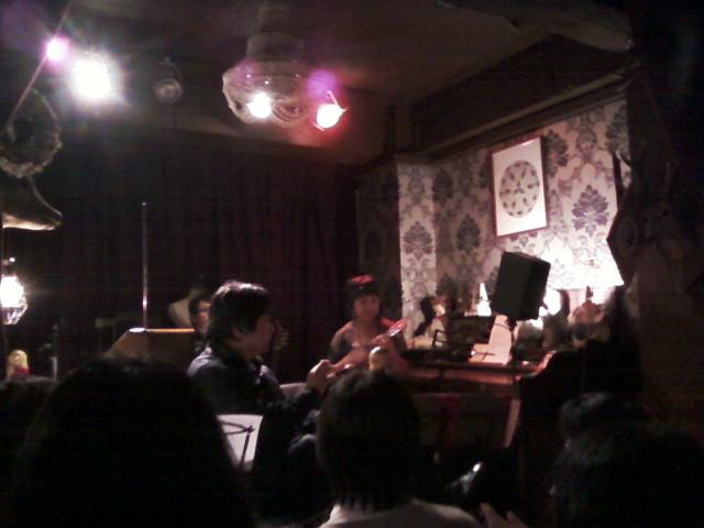 Mandarin Electron Matryomin Theremin in the Matryoshka doll